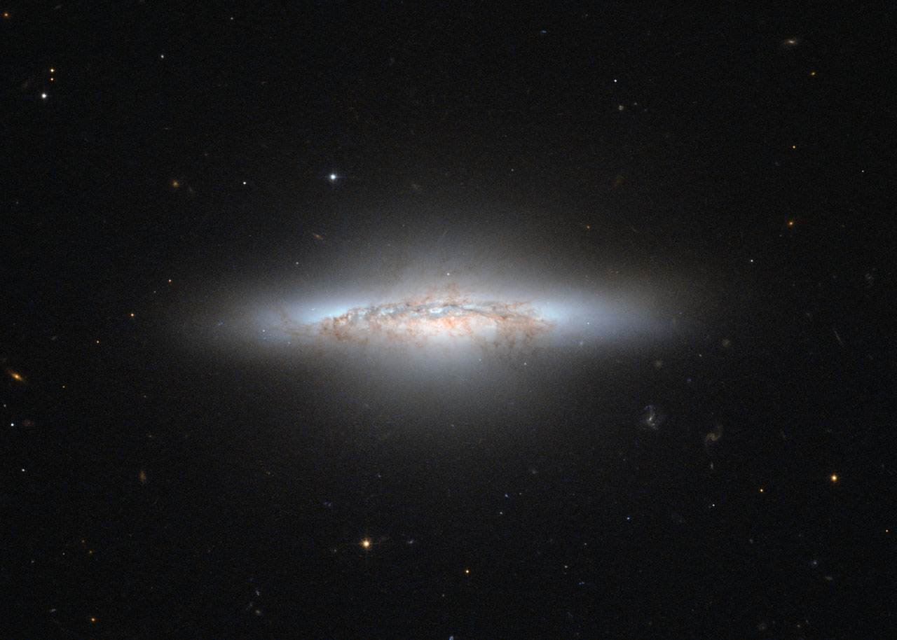 The NASA/ESA Hubble Space Telescope has captured a beautiful galaxy that, with its reddish and yellow central area, looks rather like an explosion from a Hollywood movie. The galaxy, called NGC 5010, is in a period of transition. The aging galaxy is moving on from life as a spiral galaxy, like our Milky Way, to an older, less defined type called an elliptical galaxy. In this in-between phase, astronomers refer to NGC 5010 as a lenticular galaxy, which has features of both spirals and ellipticals. NGC 5010 is located around 140 million light-years away in the constellation of Virgo (The Virgin). The galaxy is oriented sideways to us, allowing Hubble to peer into it and show the dark, dusty, remnant bands of spiral arms. NGC 5010 has notably started to develop a big bulge in its disk as it takes on a more rounded shape. Most of the stars in NGC 5010 are red and elderly. The galaxy no longer contains all that many of the fast-lived blue stars common in younger galaxies that still actively produce new populations of stars. Much of the dusty and gaseous fuel needed to create fresh stars has already been used up in NGC 5010. Over time, the galaxy will grow progressively more "red and dead,” as astronomers describe elliptical galaxies. Hubble's Advanced Camera for Surveys snapped this image in violet and infrared light. (from